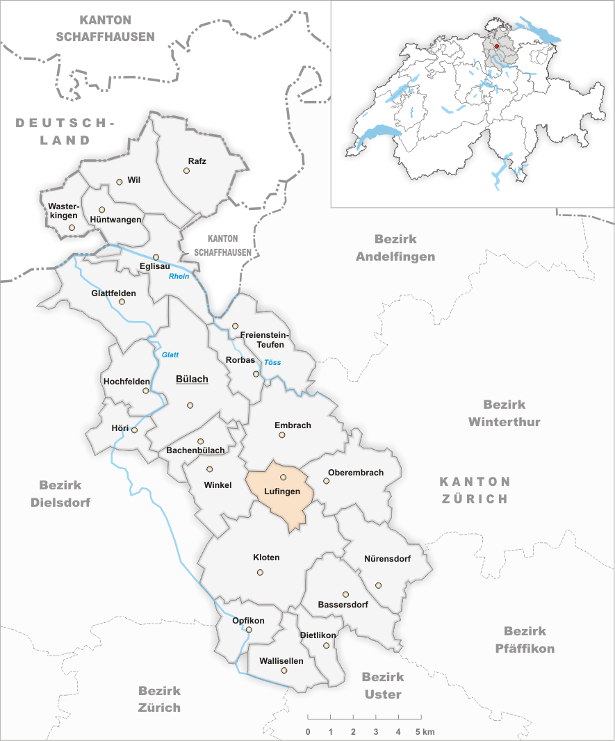 Municipality Lufingen